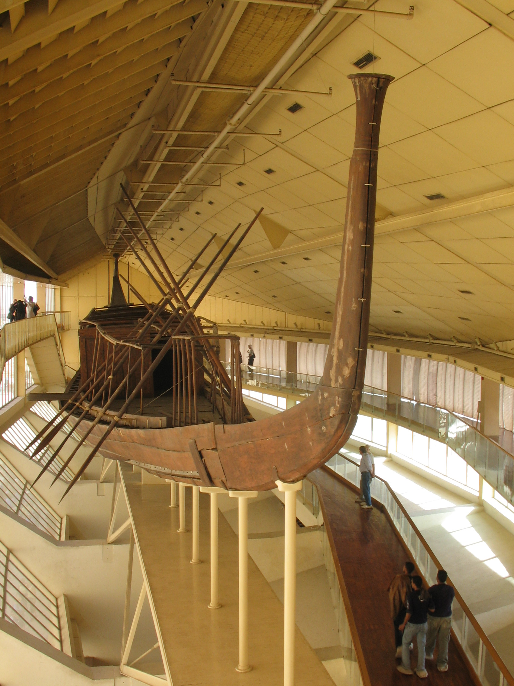 The Solar Boat, used to bring the mummy of Khufu down the Nile. Very well preserved.